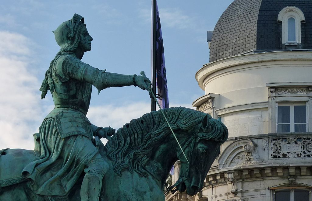 Orleans is a city in north-central France, about 111 kilometres southwest of Paris. You can use the images for free. But a link to - I would be happy :)